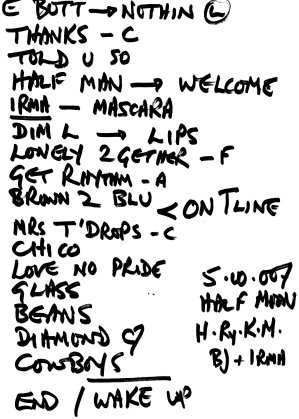 Hank Wangford's Half Moon Putney setlist for 5th October 2007.